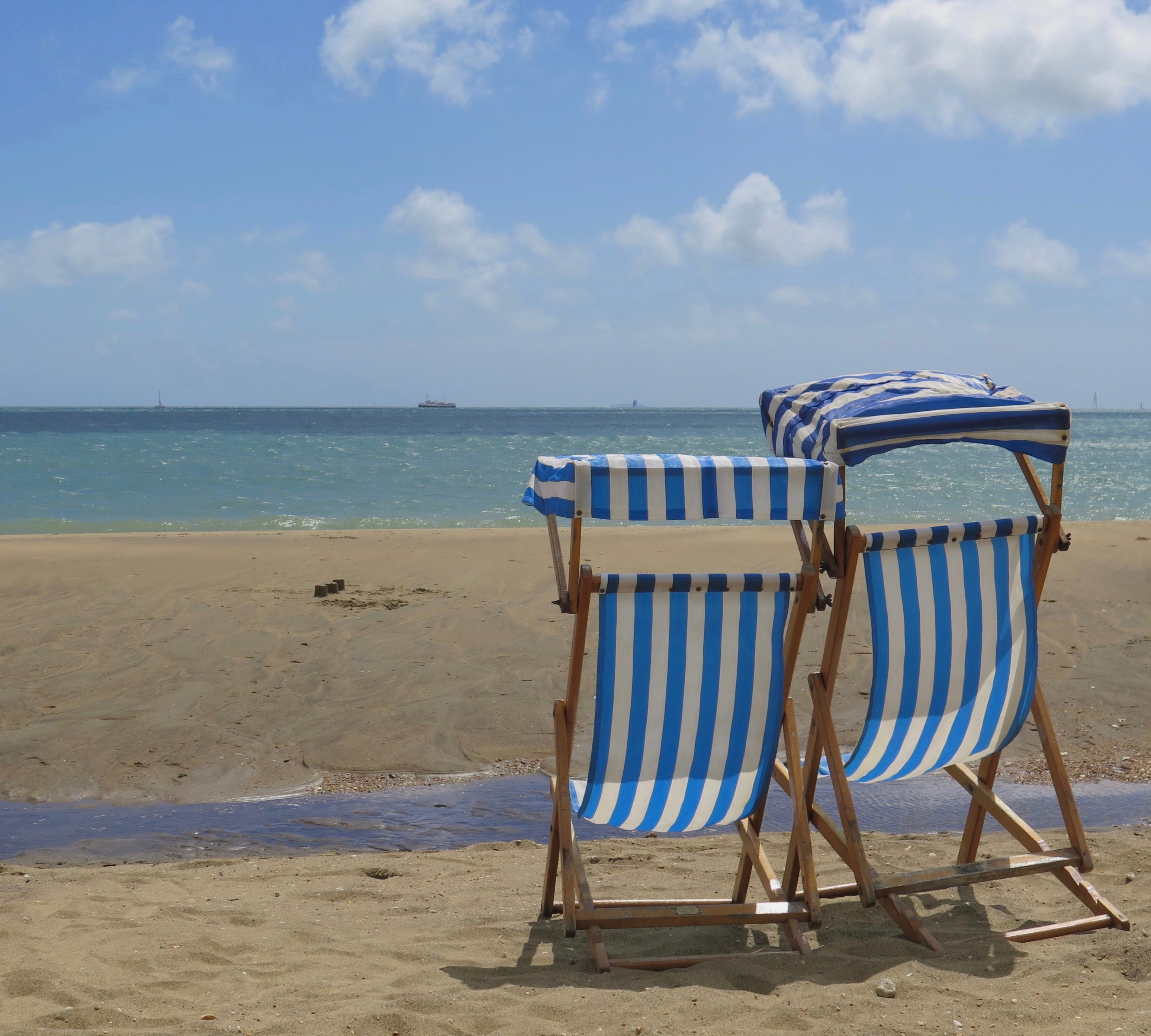 Looking out to the English Channel from Sandown's sandy beach